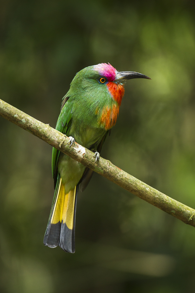 Red-bearded Bee-eater - Kang Kra Chan - Thailand_S4E4578